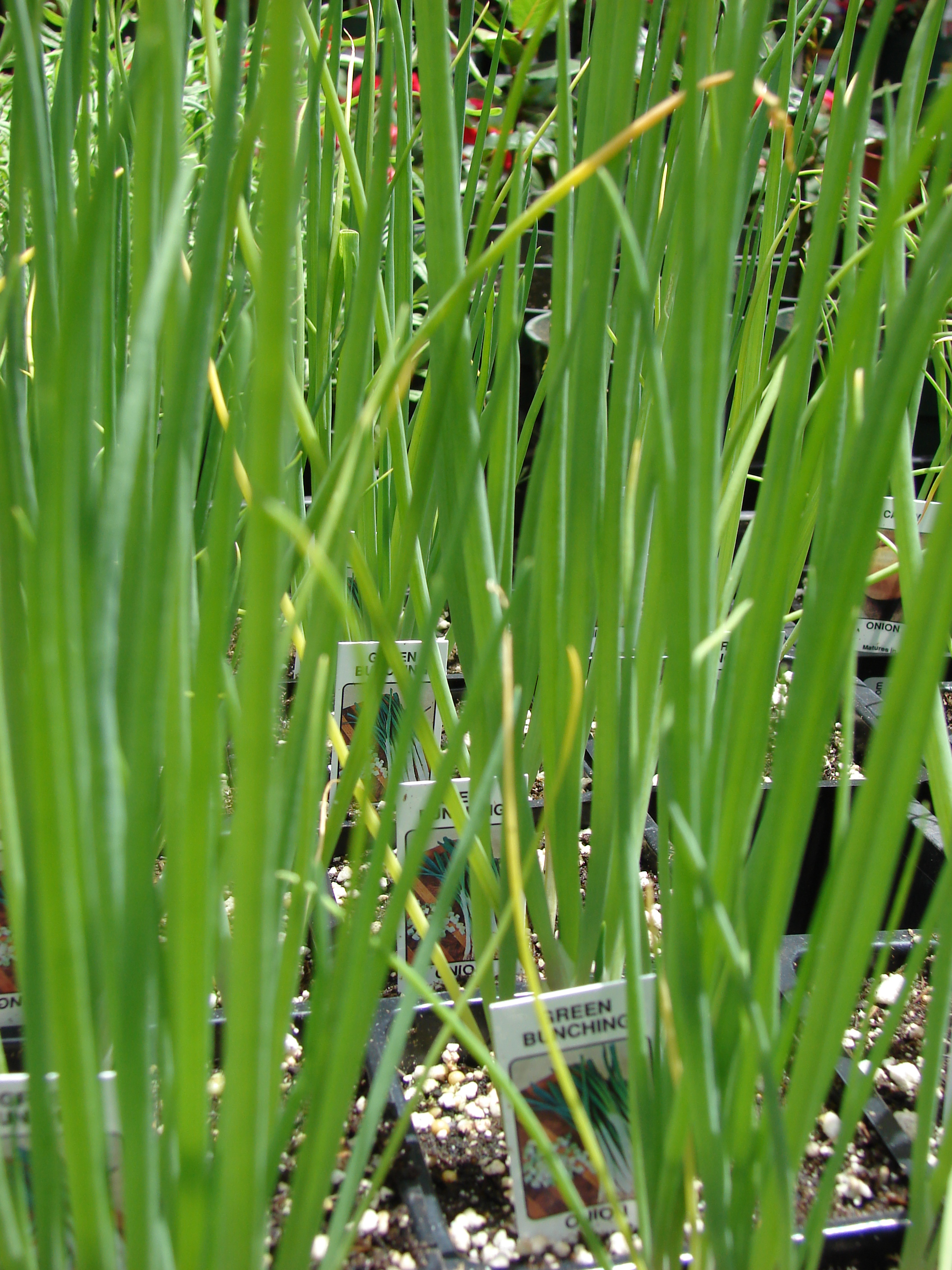 Allium fistulosum (green bunching onion habit). Location: Maui, Kula Ace Hardware and Nursery